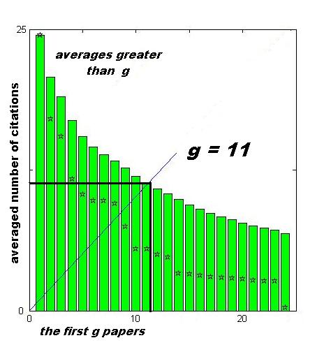 Illustrated example for the g-index proposed by Egghe